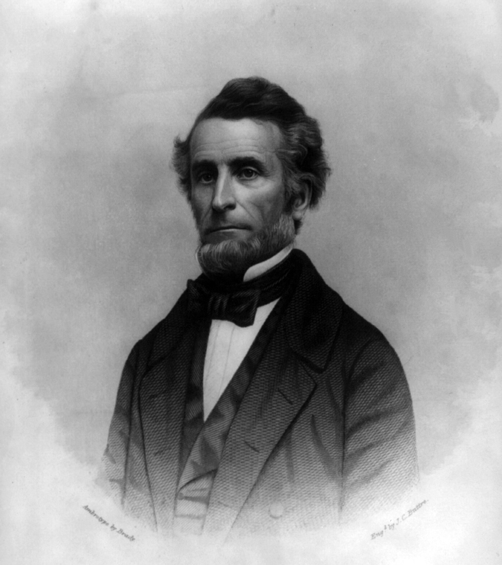 John James Speed, telegraphy pioneer. Illus. in: The telegraph manual, 1859.